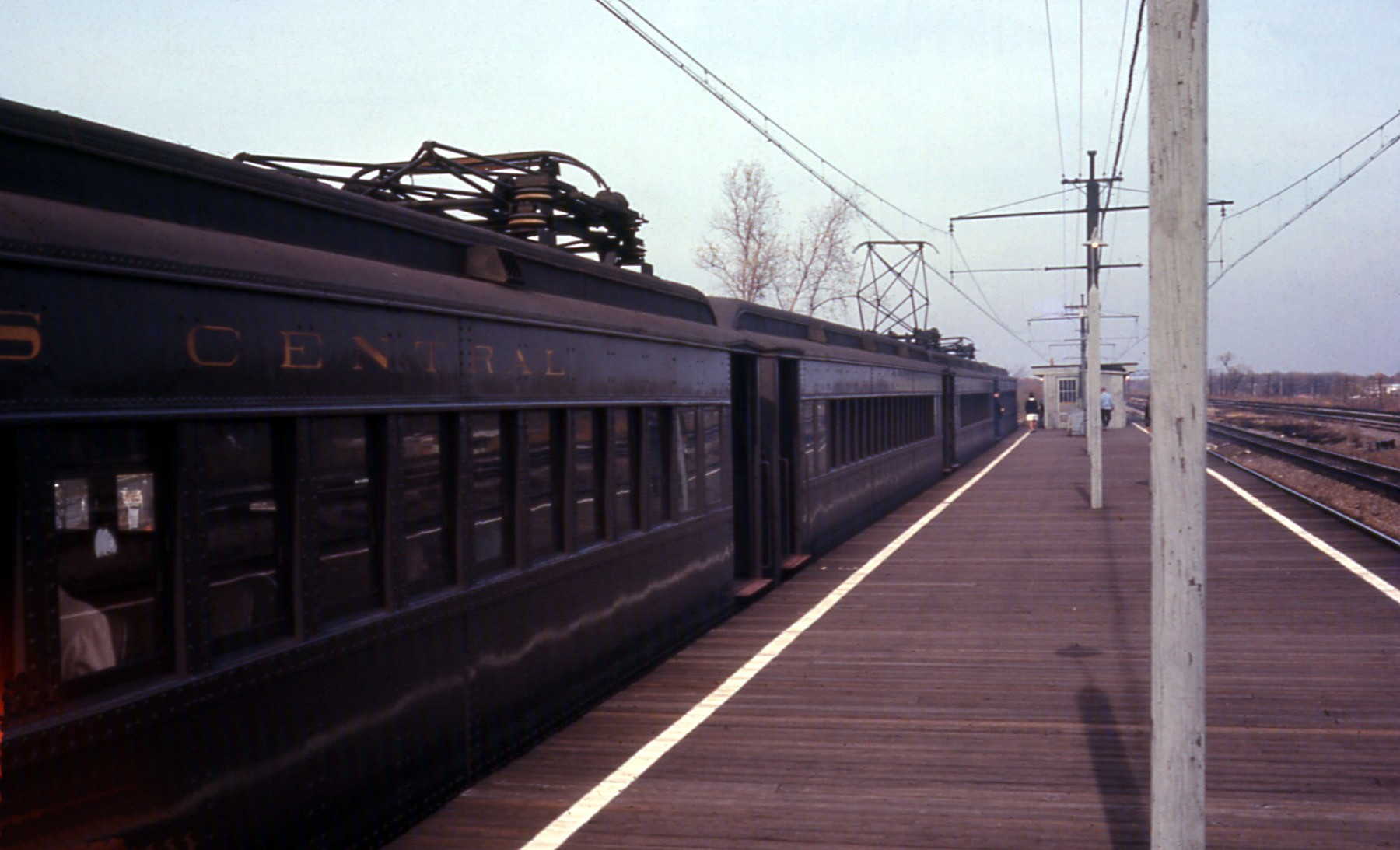 An Illinois Central Railroad electric multiple unit commuter train at Richton Park in 1968.